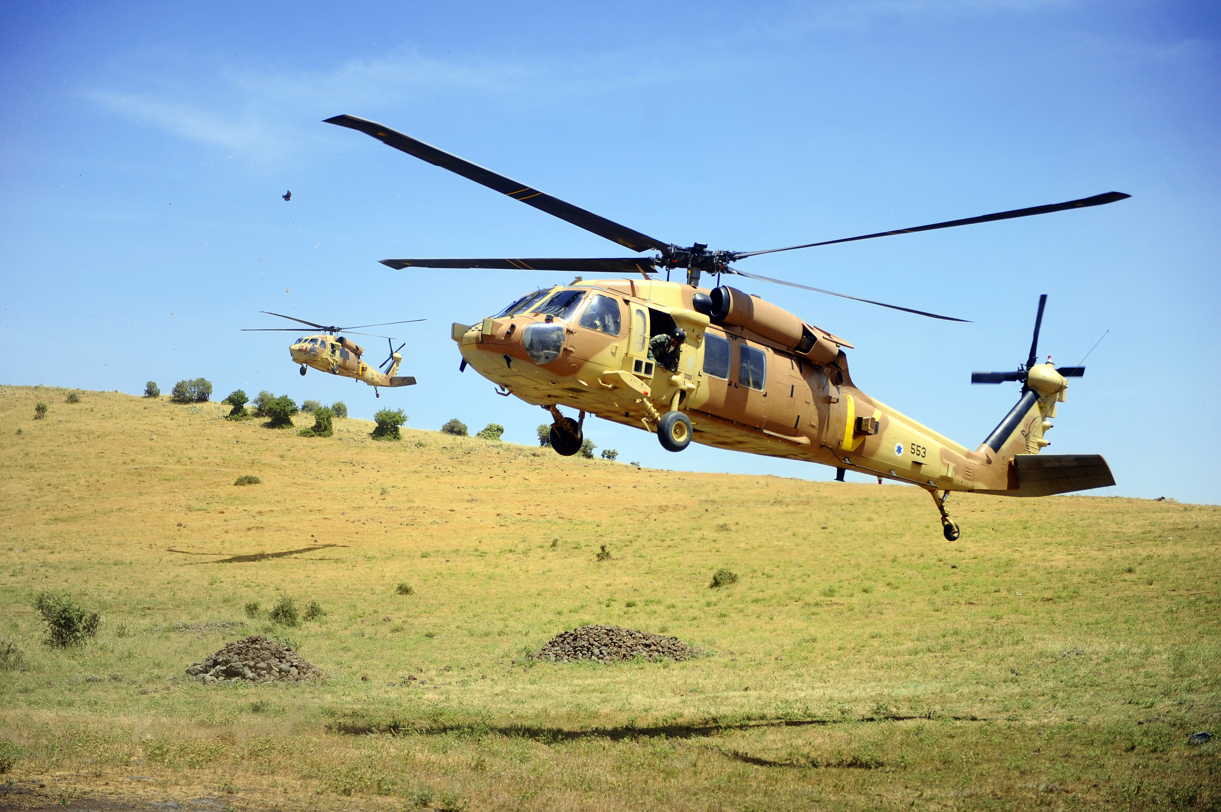 May 22, On May 22, the Nahal Brigade conducted a brigade-wide drill. The drill, also combining armored and air forces, tested the awareness and abilities of all of the brigade's soldiers. The Israel Defense Forces Facebook • blog • Twitter